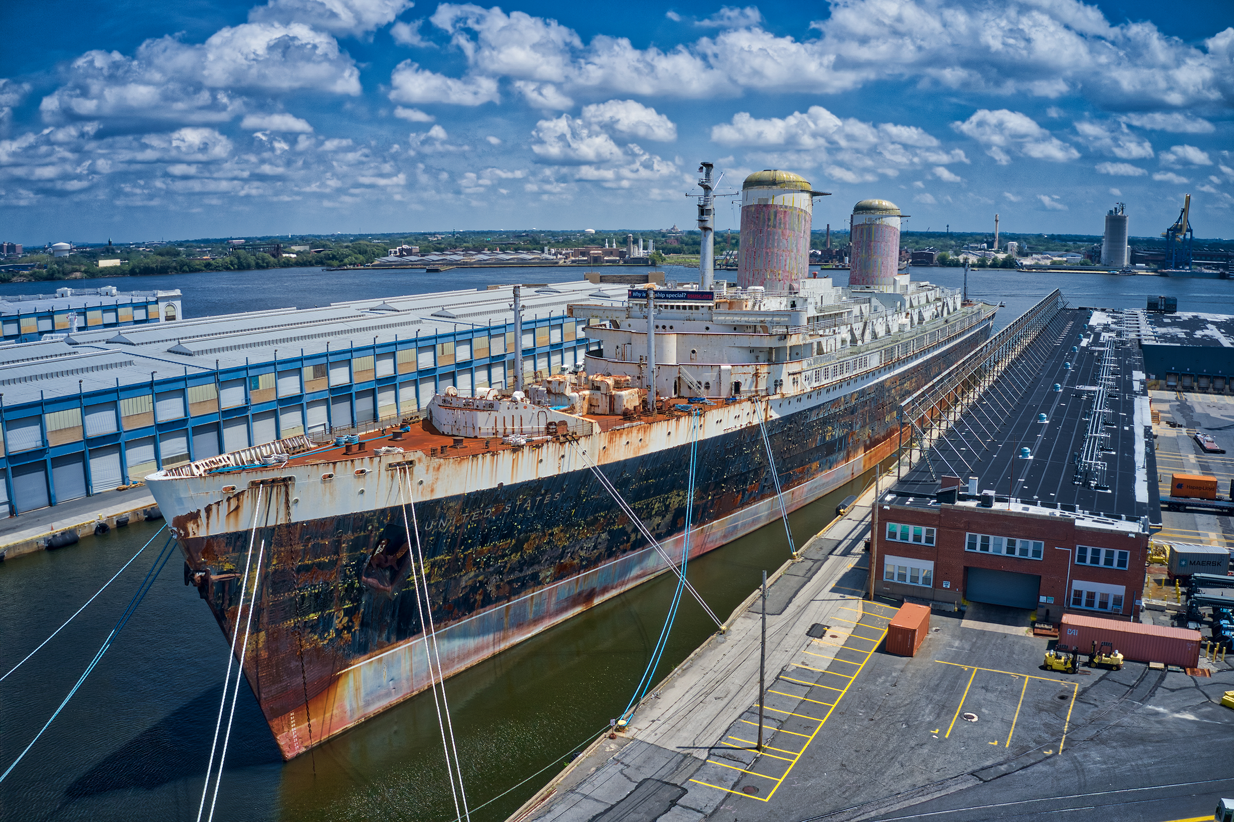 The SS United States in port in Philadelphia, PA. Shot on August 2, 2020 using Mavic 2 Pro drone. HDR composite of 5 exposures.